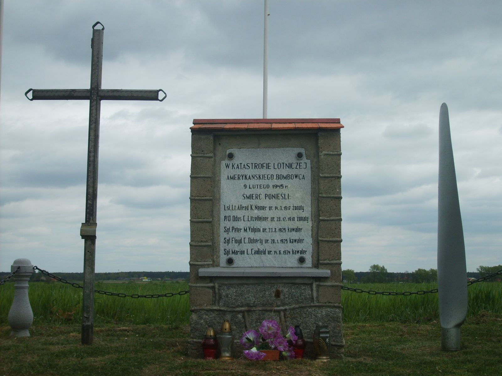 Place of death of american soliders in 1945 near village Jaraczewo in Poland, in Greater Poland Voivodeship